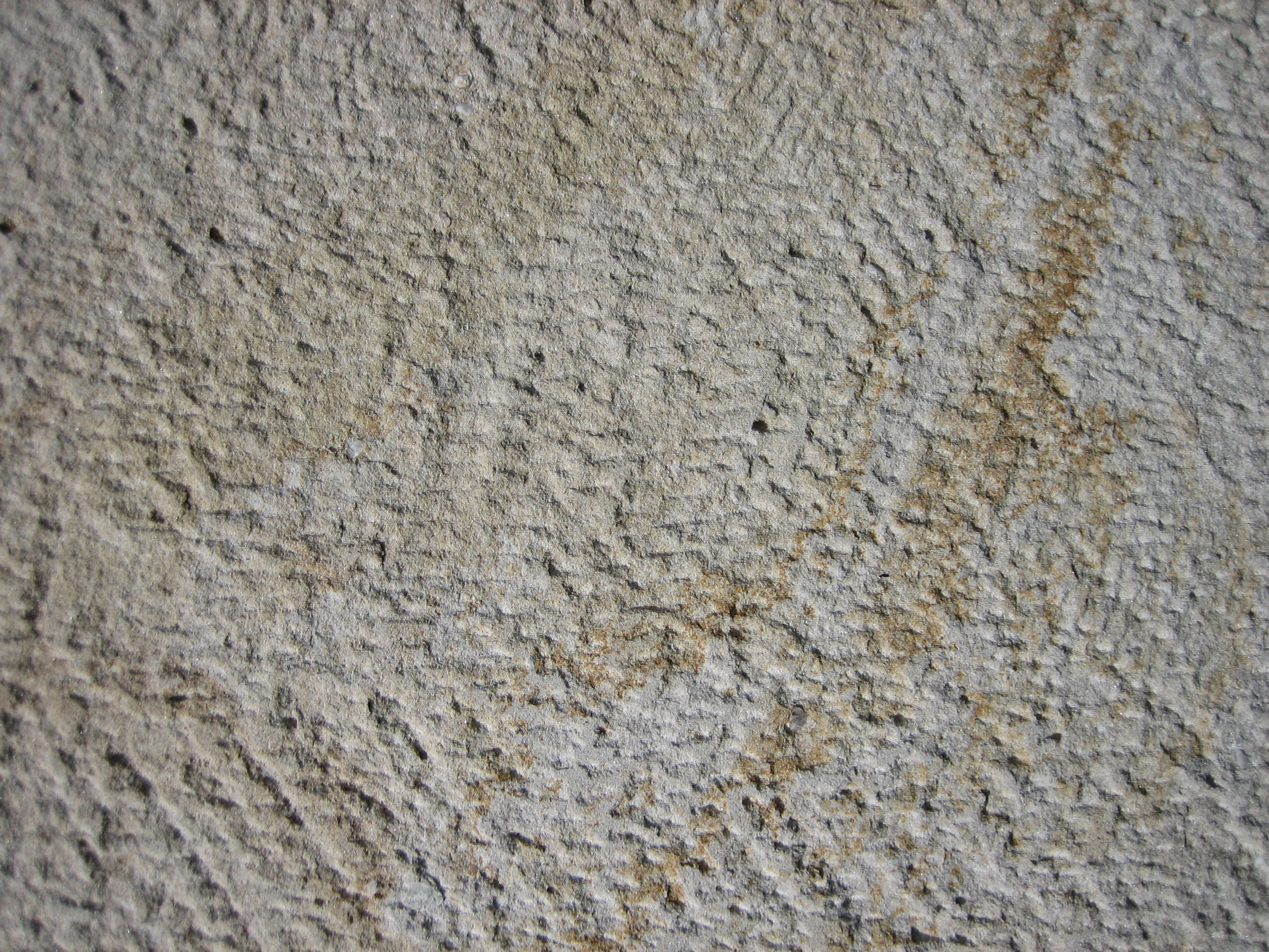 yellow sandstone coarse surface